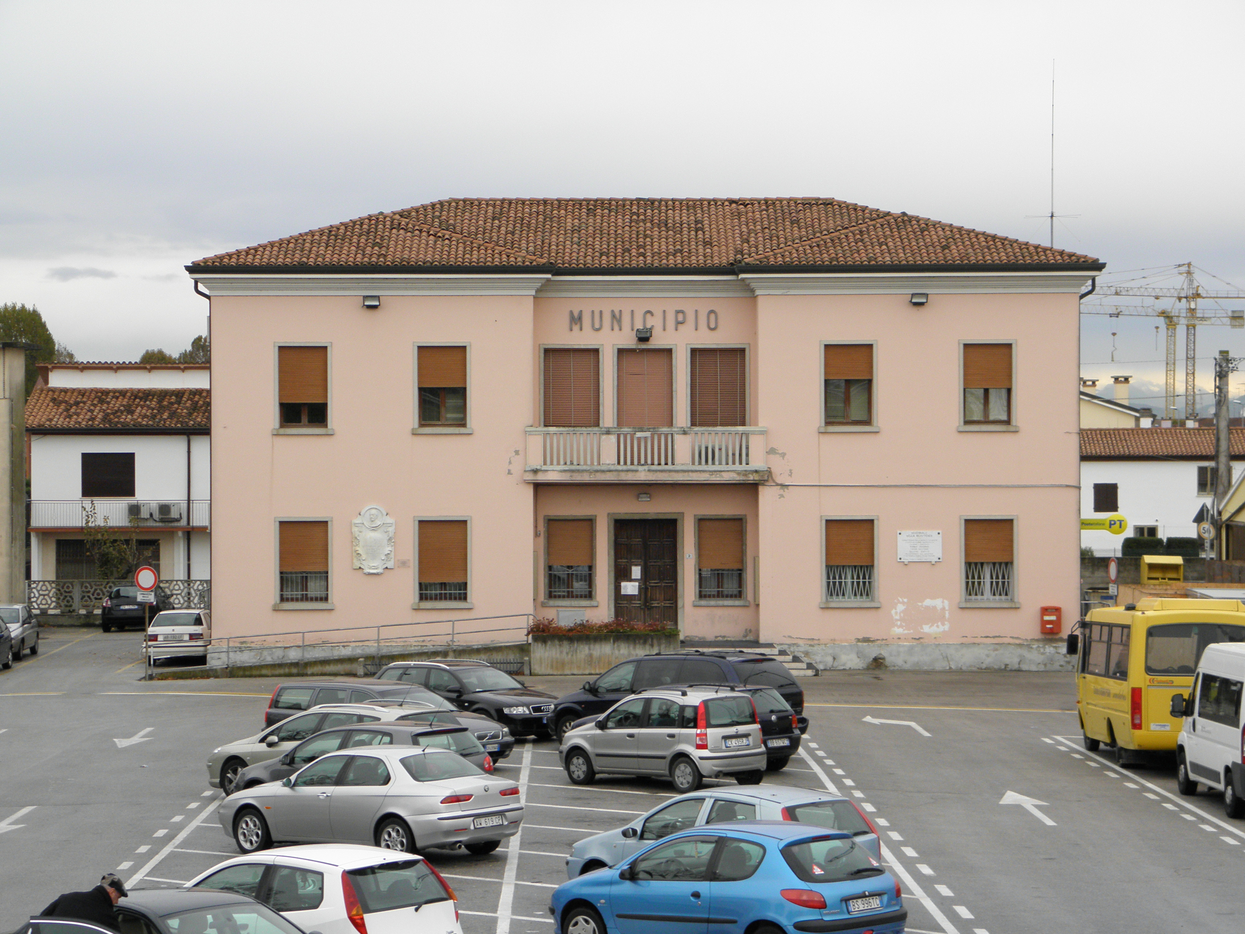 Boara Pisani Municipal House